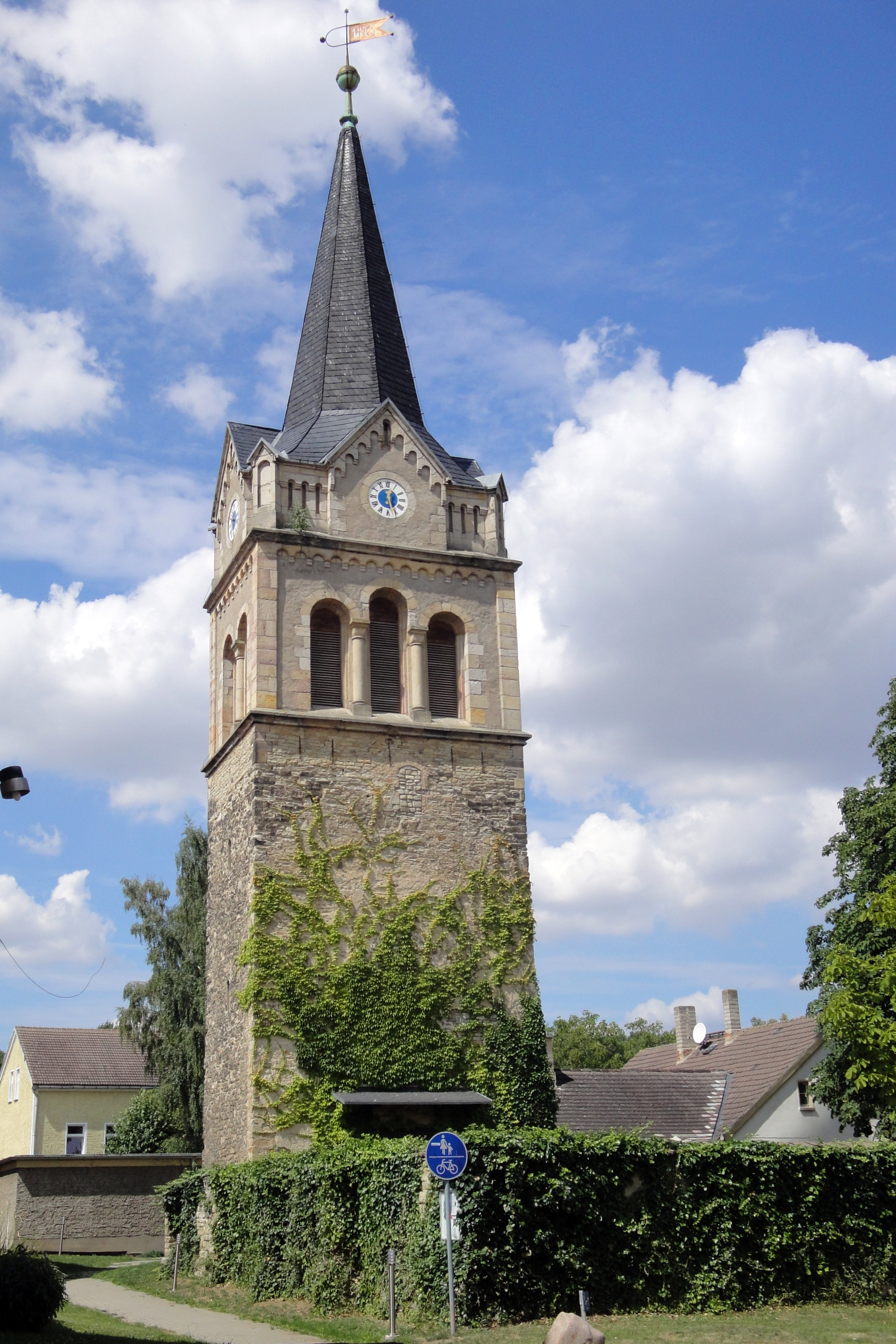 Church in Stemmern